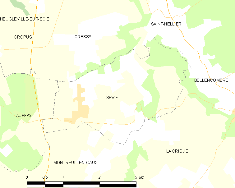 Map of French municipality Sévis